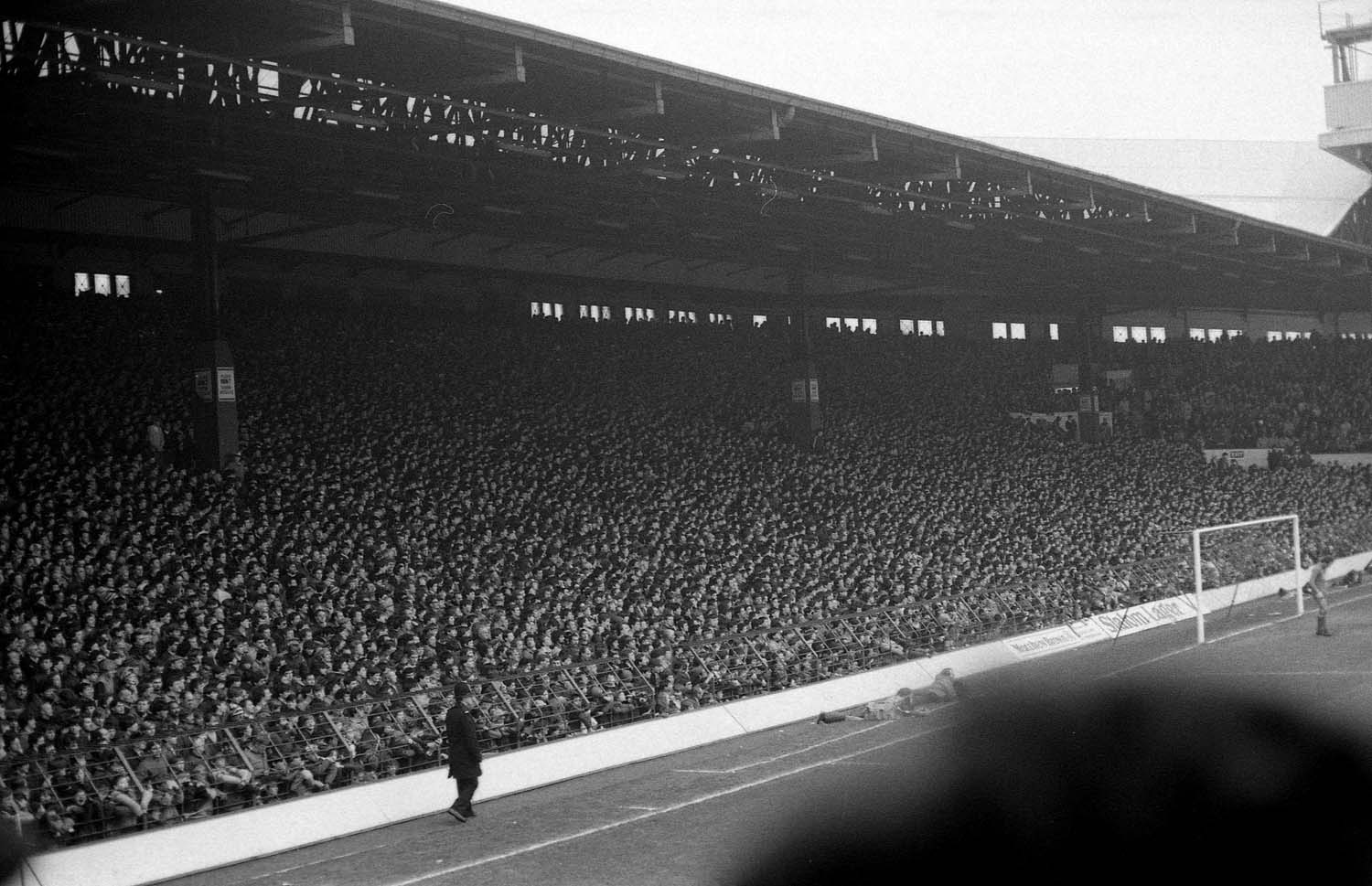 The Kop has since been converted to an all seated stand.